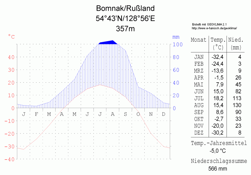 climate chart in the format by Walther and Lieth, metric, °Celsisus and millimeters, made with Geoklima 2.1